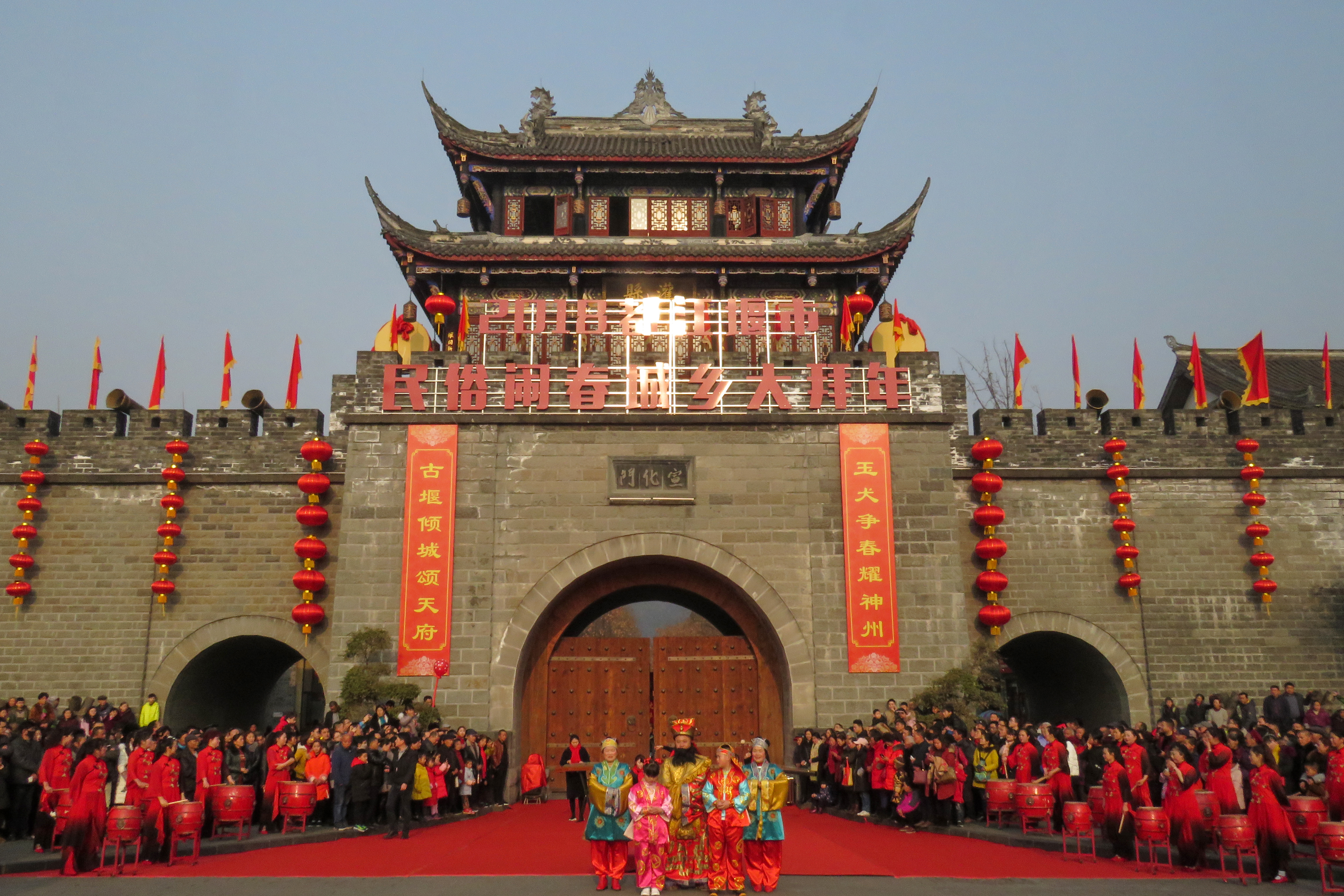 Near Lidui Park Station.